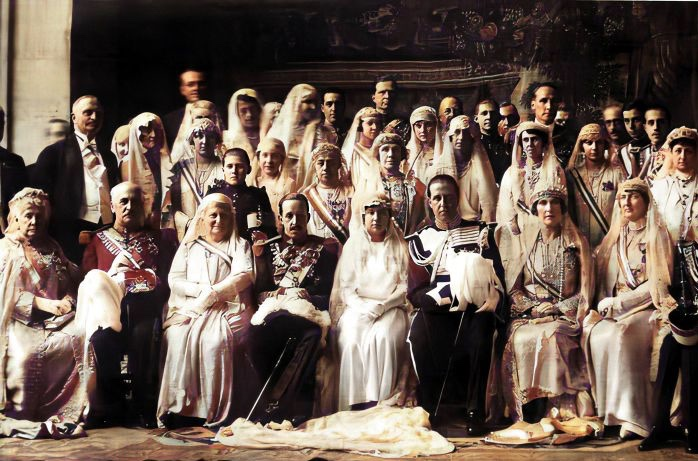 Isabel Alfonsa, Juan Cancio and their families